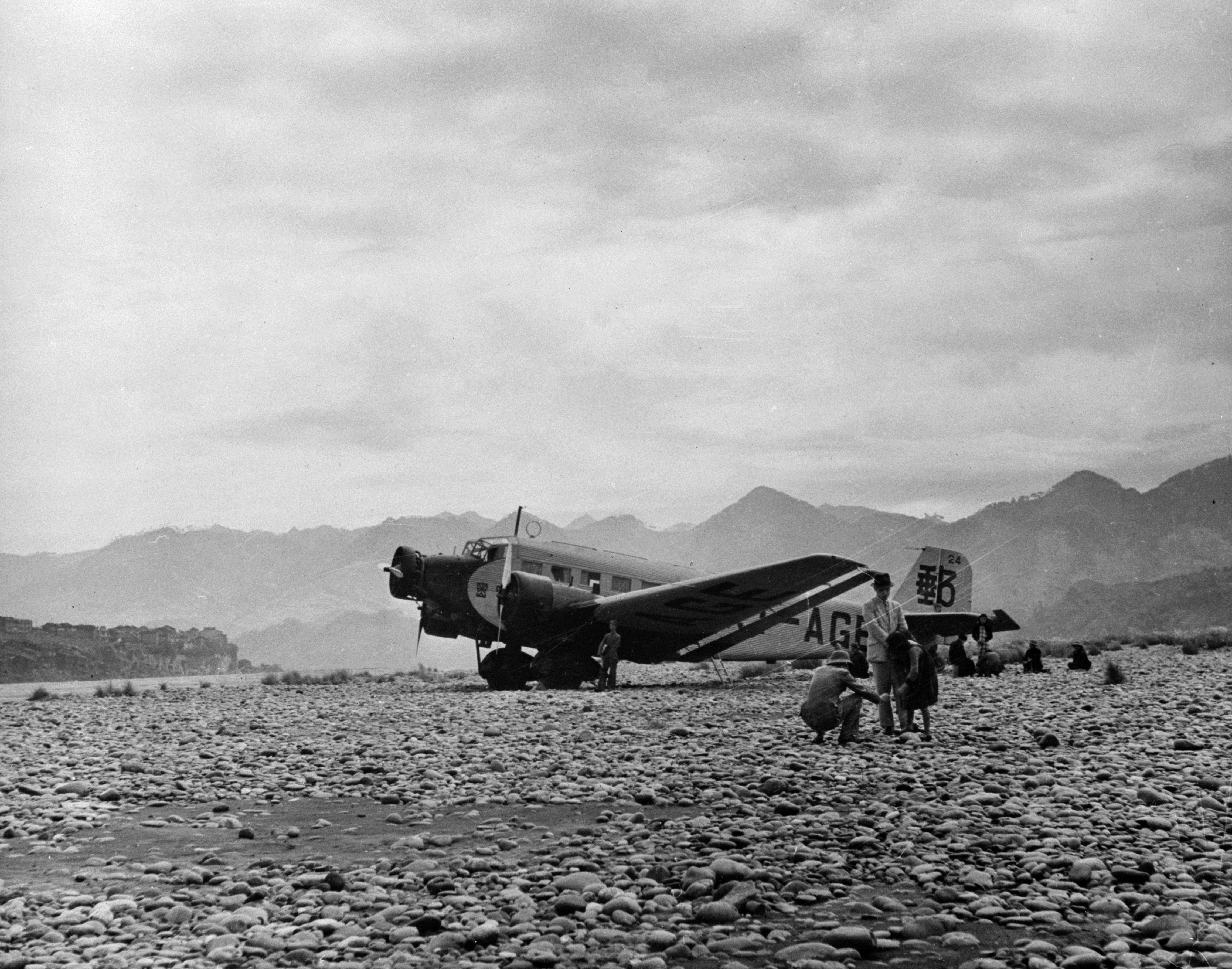 A Junkers Ju 52/3m of the Eurasia airline. Eurasia was a subsidiary of the German Lufthansa. It was founded in 1935 and originally operated ten Ju 52s from Kunming, China. Five aircraft were destroyed by Japanese bombs, one was shot down and three crashed. Operations ceased in 1943, but the last surviving aircraft was scrapped in 1945. "郵" marking on tail for use as a mail carrier?